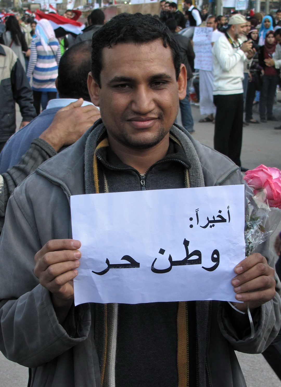 A protester in Tahrir Square, the day following Mubarak's resignation. The placard reads: "Finally: a free country."